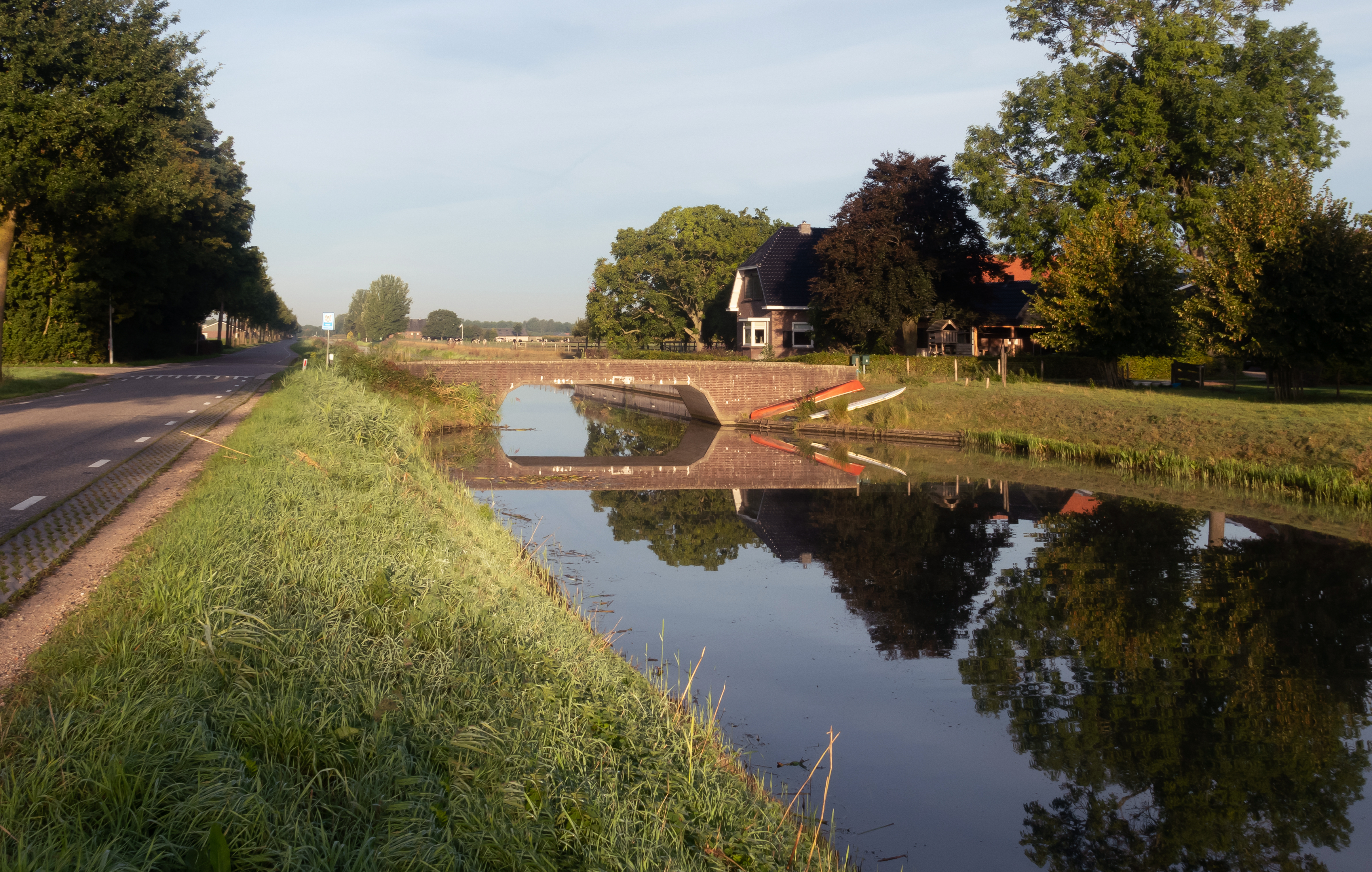 Zetten, river the Linge at the Weteringswal